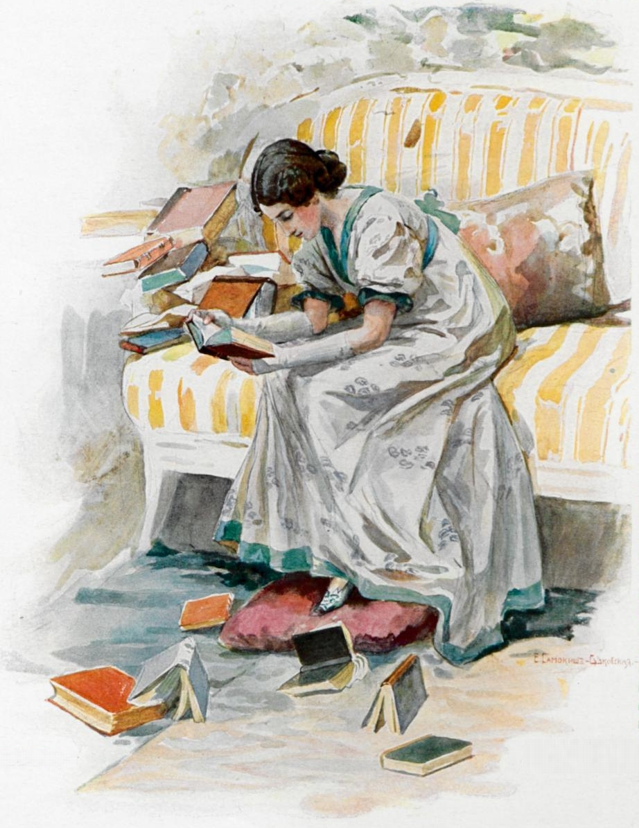 Tatyana from Evgeni Onegin, by Elena Samokysh-Sudovskaya